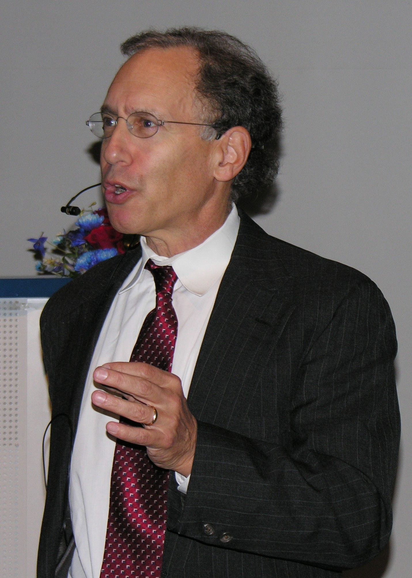 Robert Langer, American professor, at Heureka Science Centre, Finland, in October 2008.